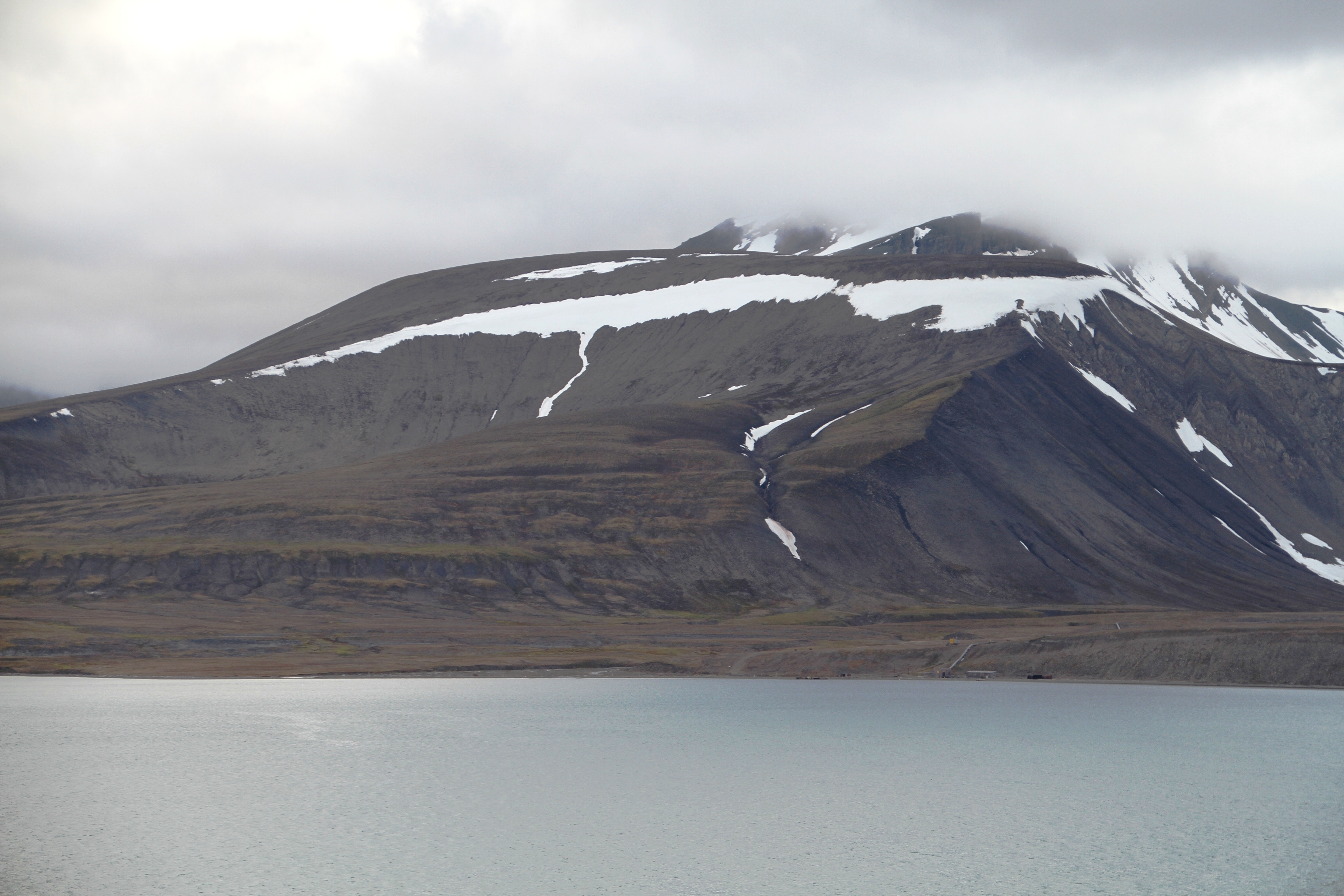 Image from the Green Harbour (Grønfjorden) in western Spitsbergen - seen from the settlement of Barentsburg in the east towards west. The image shows the mountainous areas on the western side of the fjord.